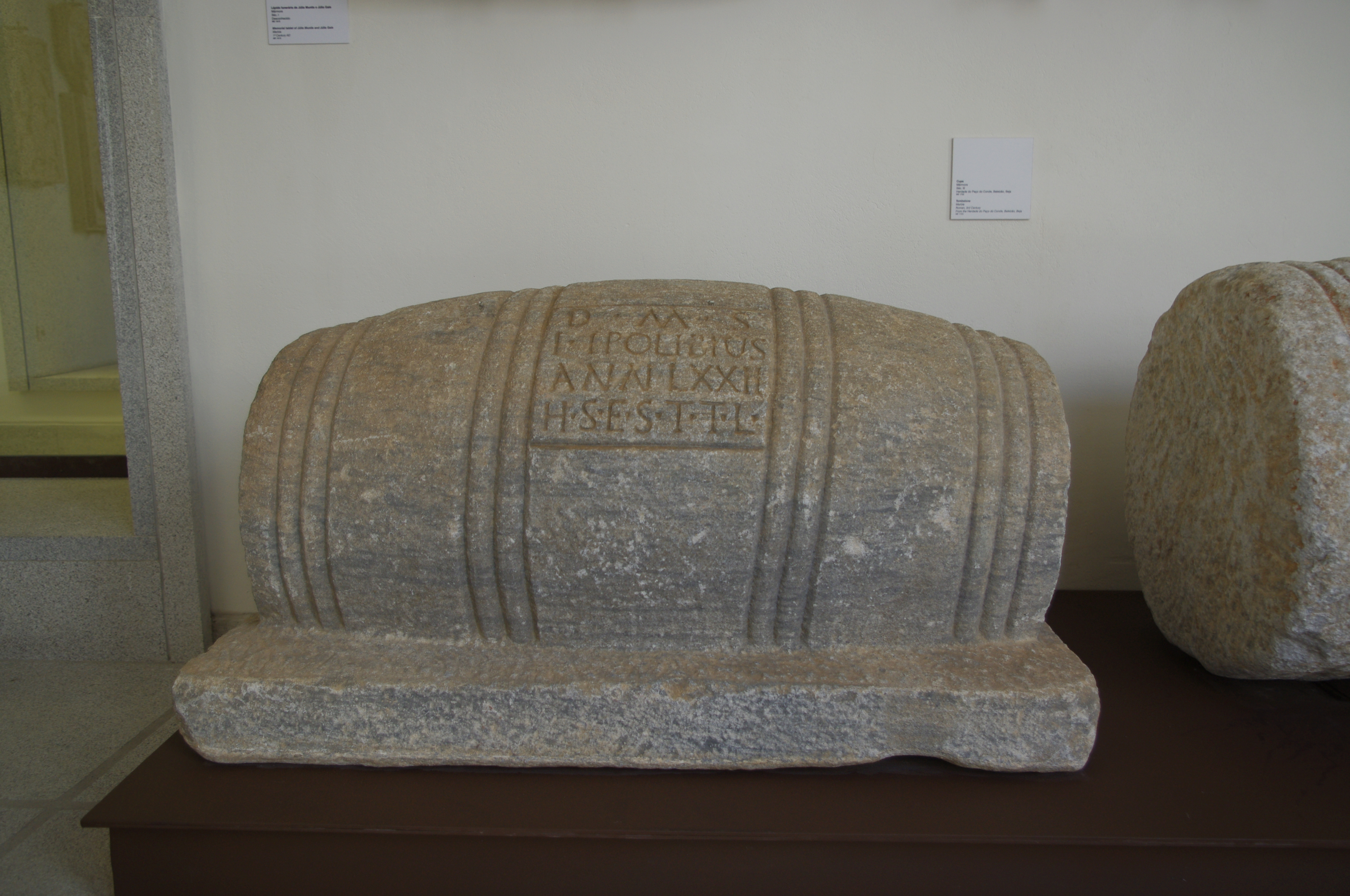 "Cupas", Roman tombstones carved into the shape of wooden wine barrels were, appropriately enough, used to mark the graves of ancient winemakers. When this tomb stone was carved about in the 3rd century AD, the Alentejo region of Portugal (the region around Evora) was already famous for its wines.